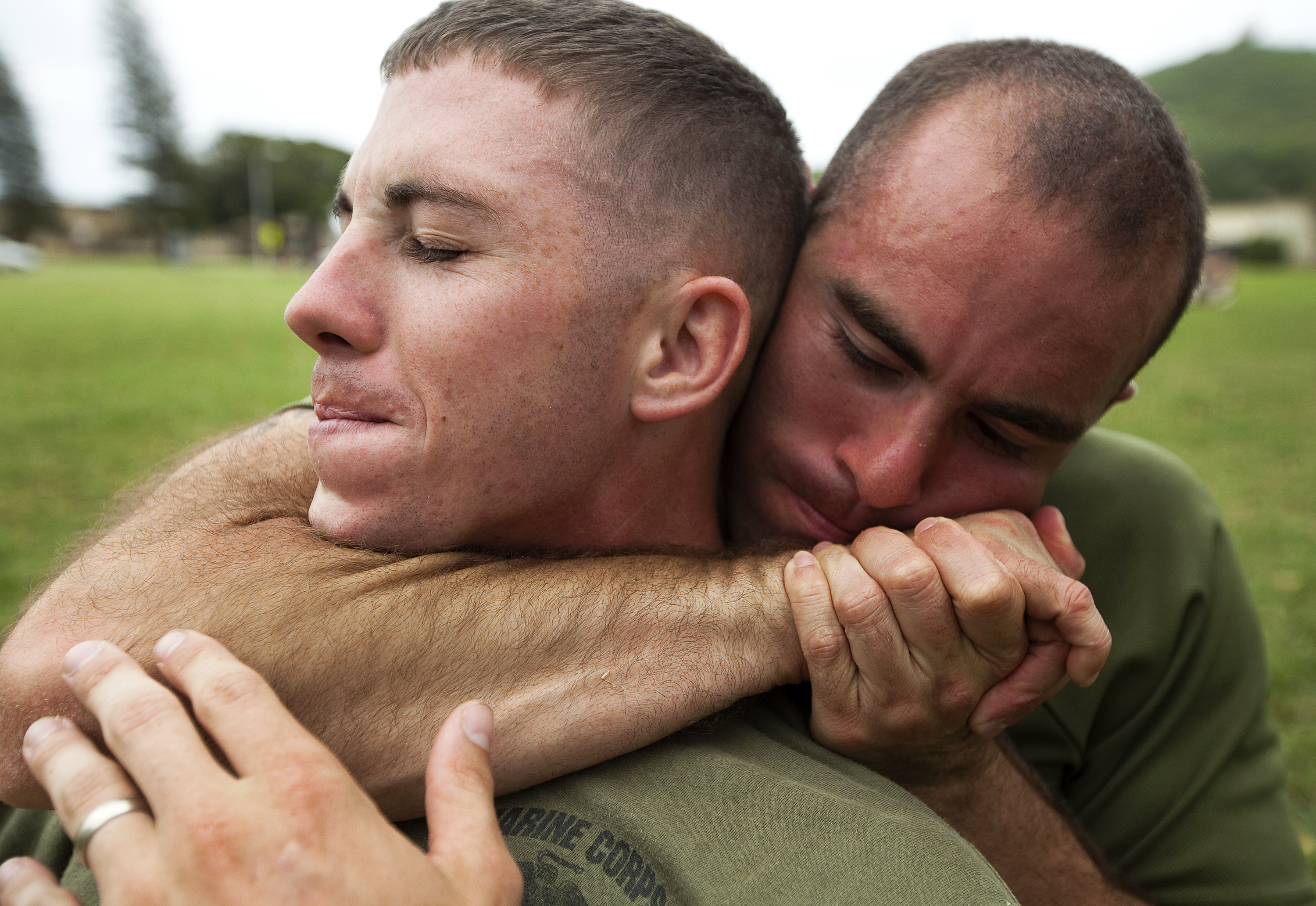 Sgt. Joshua Stone, an imagery analyst and black belt Marine Corps Martial Arts Program instructor with Marine Corps Forces, Pacific, performs a choke on fellow instructor Sgt. Brandon Cox, a rescue man with Aircraft Rescue Firefighting, Marine Corps Air Station Kaneohe Bay, during a second degree advancement and re-certification workshop held by a mobile training team from the Marine Corps Martial Arts Center of Excellence on Marine Corps Base Hawaii, April 11, 2011. The team of top-level MACE instructors, coming to Hawaii from the Marine Corps’ MCMAP hub in Quantico, Va., offered more than 40 Hawaii-based Marines the opportunity to renew their three-year certifications as MCMAP instructors and instructor-trainers, and advance their belts to the second degree during the week-long workshop.